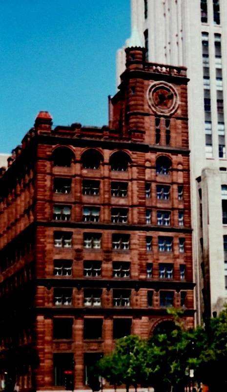 New York Life Building, Montreal, Quebec, Canada.